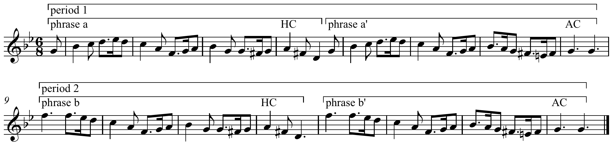 "Greensleeves" is an example of sectional binary form (the first phrase ends with the tonic). In the key of G, with E flat and F natural and sharp.